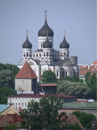 Tallinn, Russian-Orthodox Alexander Newsky Cathedral.